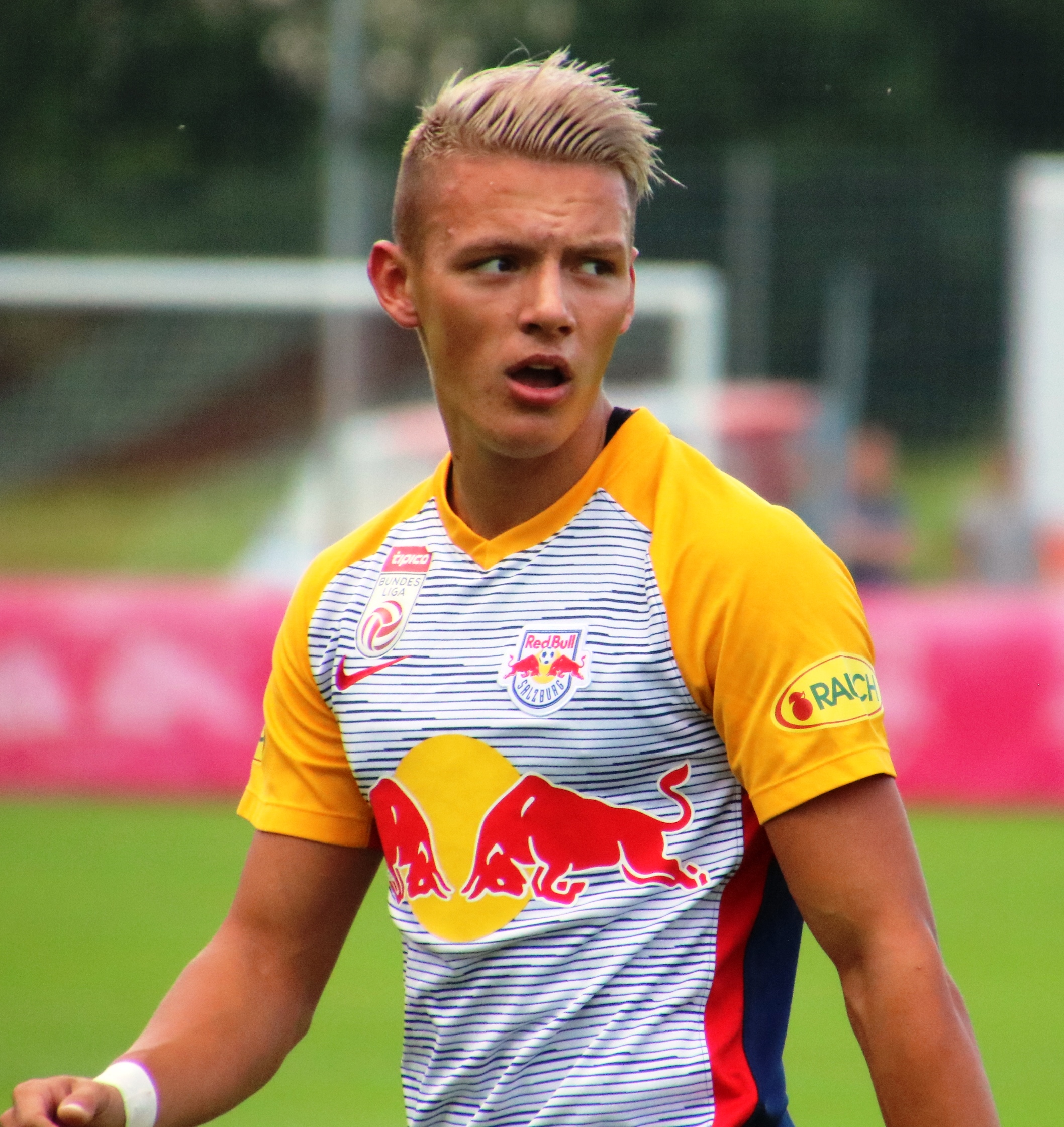 last preseason match FC RB Salzburg